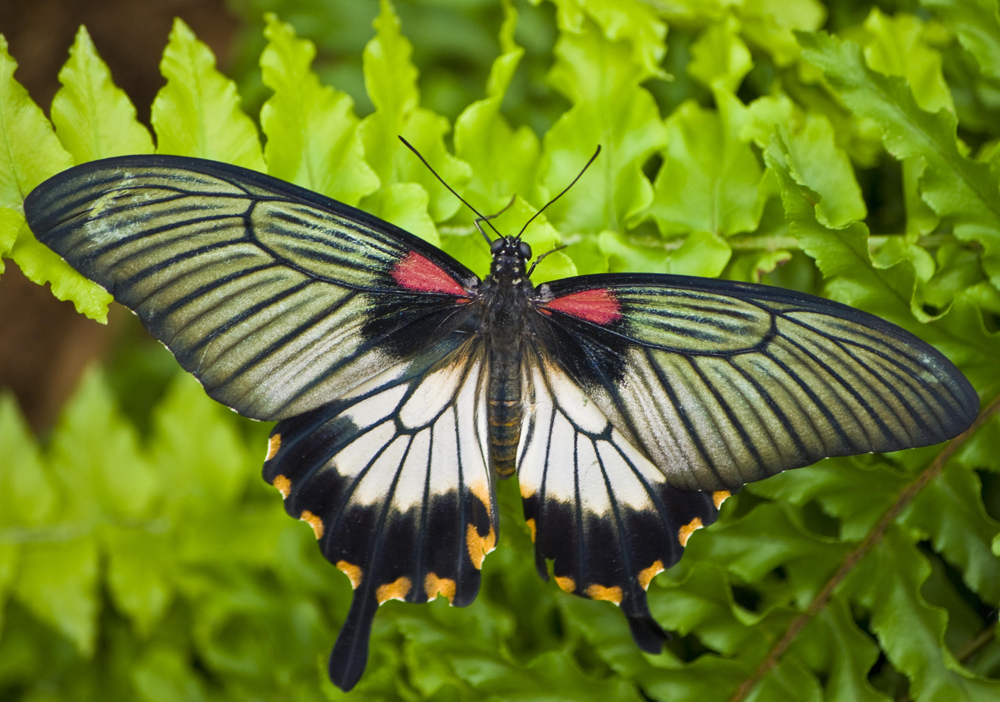 Papilio memnon